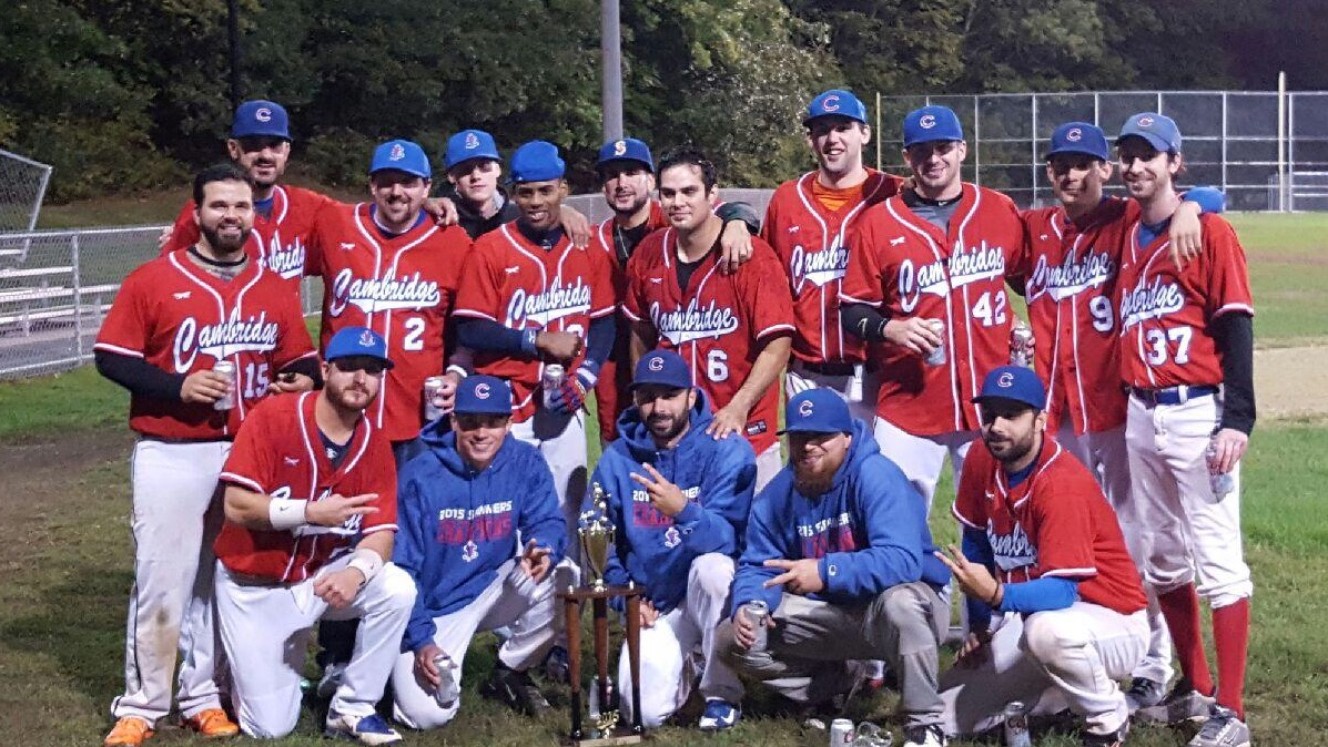 Cambridge Spinners of the boston baseball league.